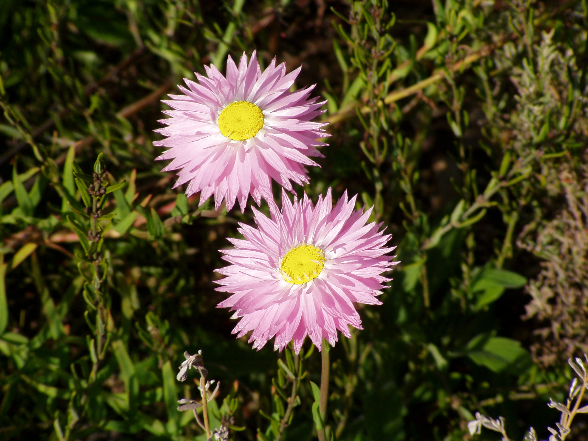 Description: Rhodanthe chlorocephala subsp. rosea Location: Australian National Botanic Gardens, Canberra, Australian Capital Territory, Australia Date: 2005-09-21 Source: picture taken by Danielle Langlois Licence: Released under GFDL and Creative Commons licenses by the photographer